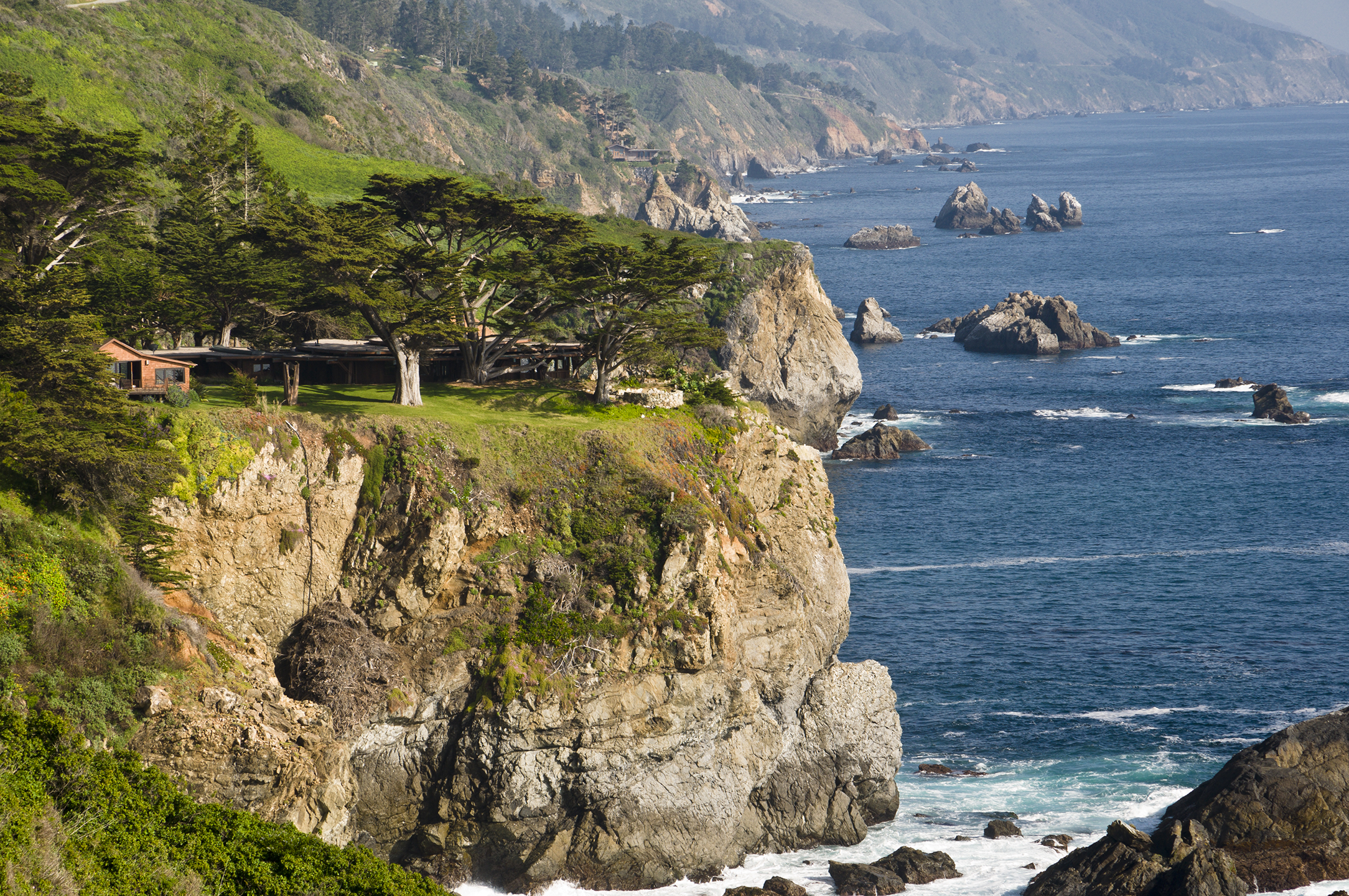 Residence at Anderson Canyon — in Big Sur, Monterey County, California. View to south from Julia Pfeiffer Burns State Park.